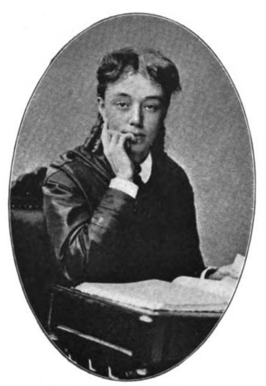 Caroline Dutcher Sterling Choate seated, with book, 1863